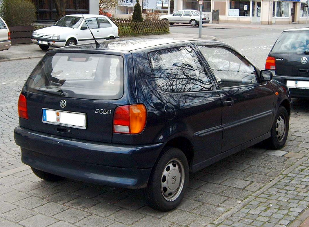 1400 cc - 3 Doors - Hatchback - 1995-96